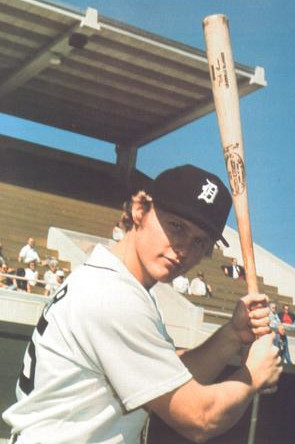 Professional baseball player Dan Meyer